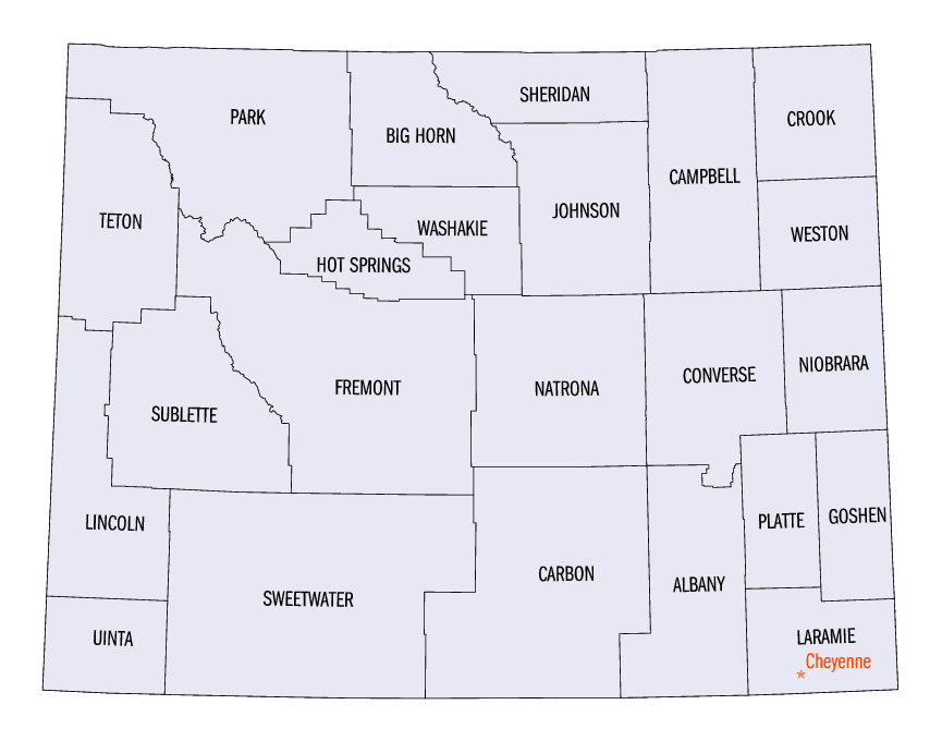 Map of Wyoming (USA), showing county names and boundary lines.